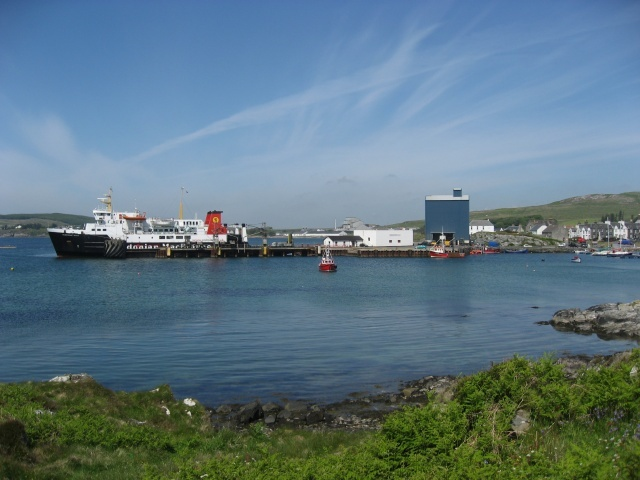 Port Ellen Ferry Terminal